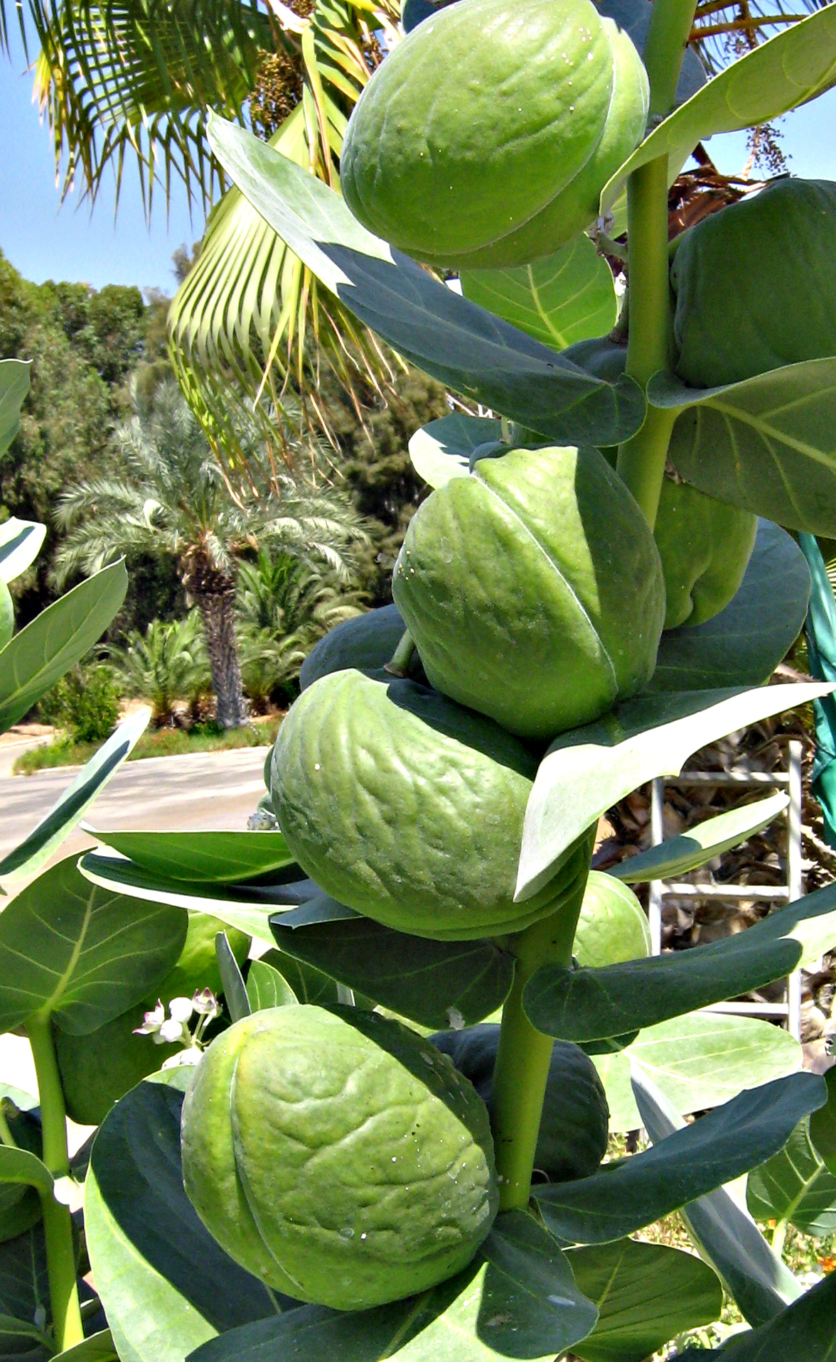 Calotropis procera fruits, Libya, Bengasher.